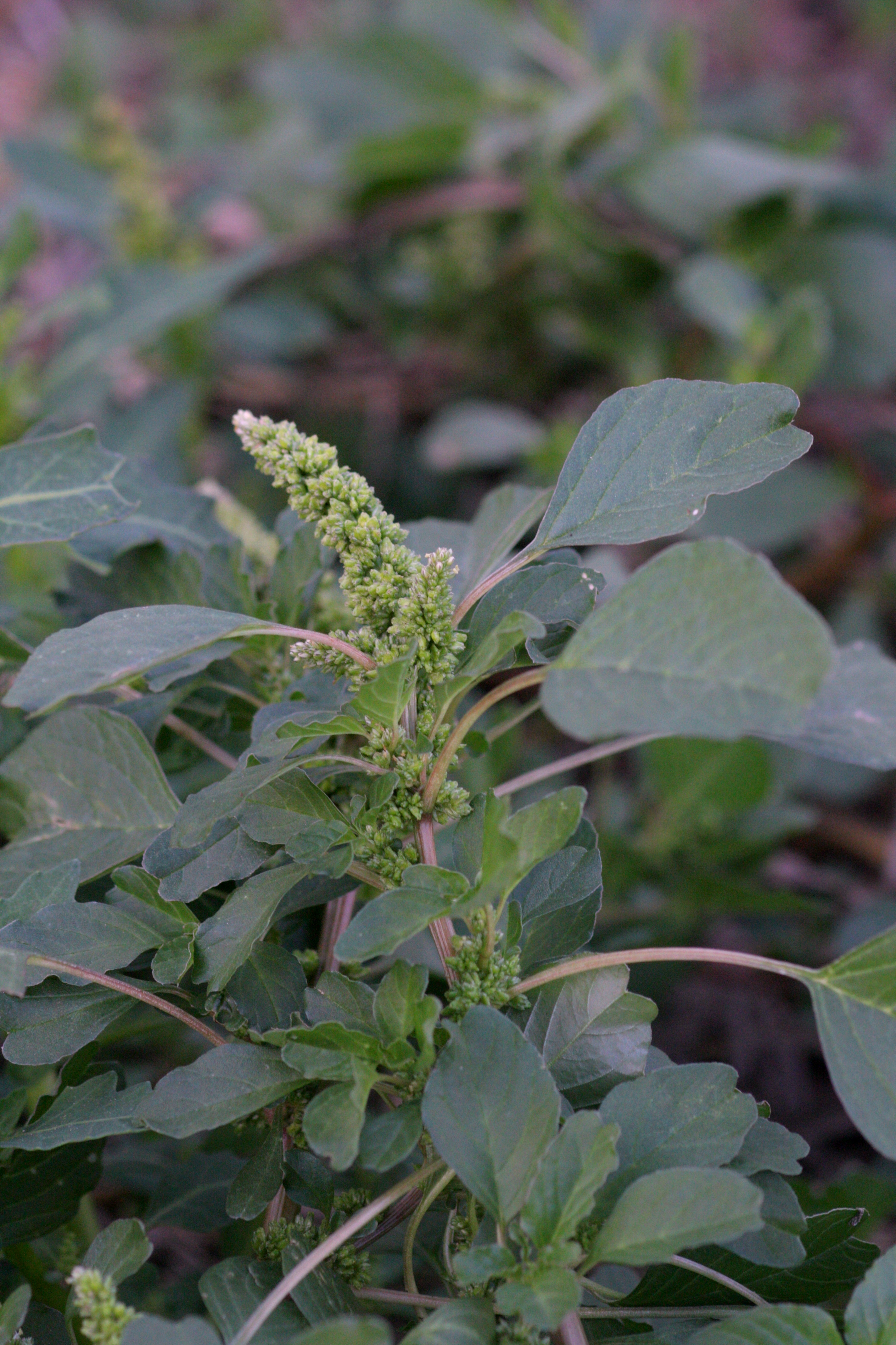 Amaranthus blitum subsp. oleraceus (Syn. A. lividus) in Ilsan, Korea